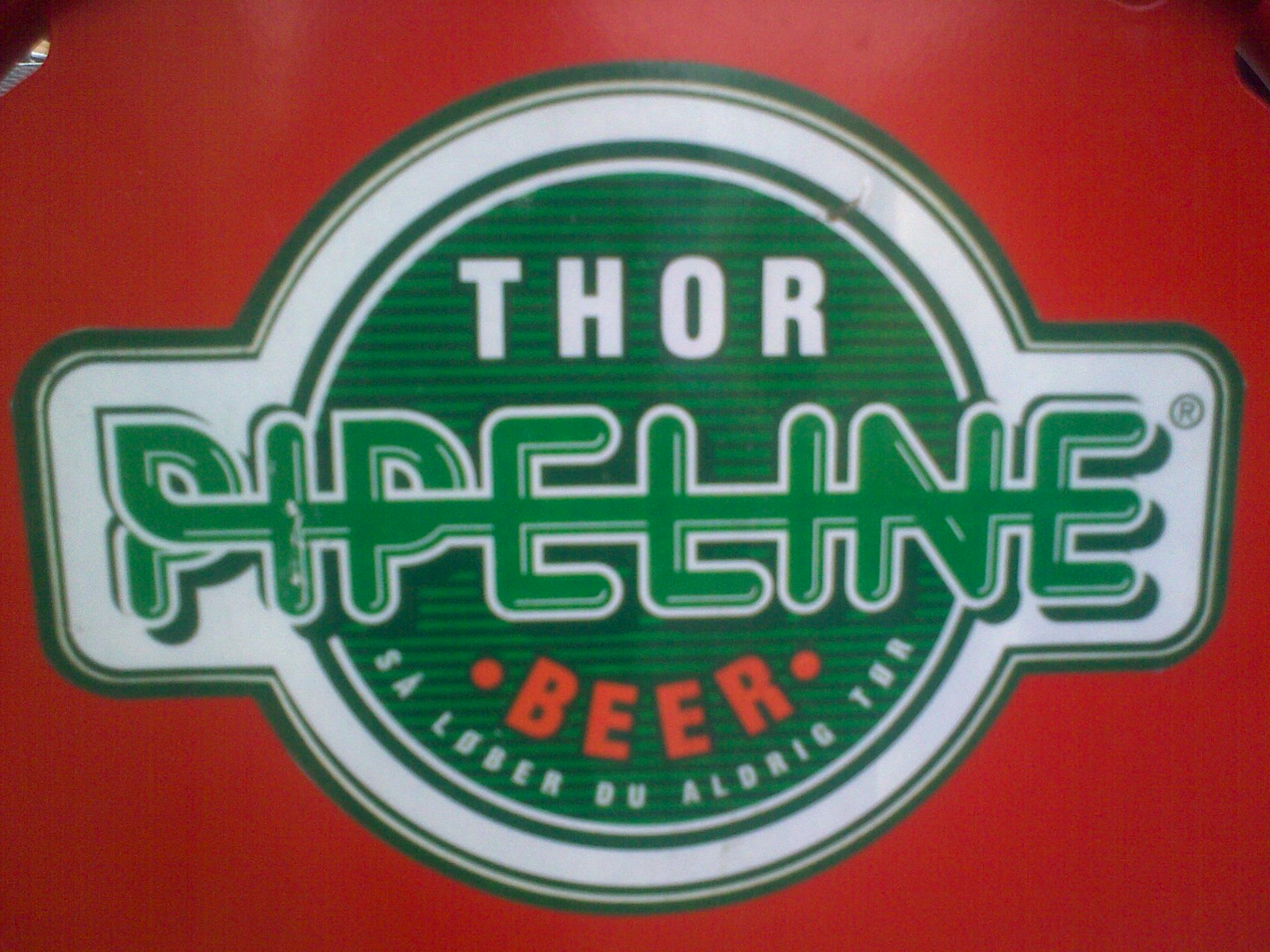 Thor pipeline in Randers city is an existing beer pipeline.